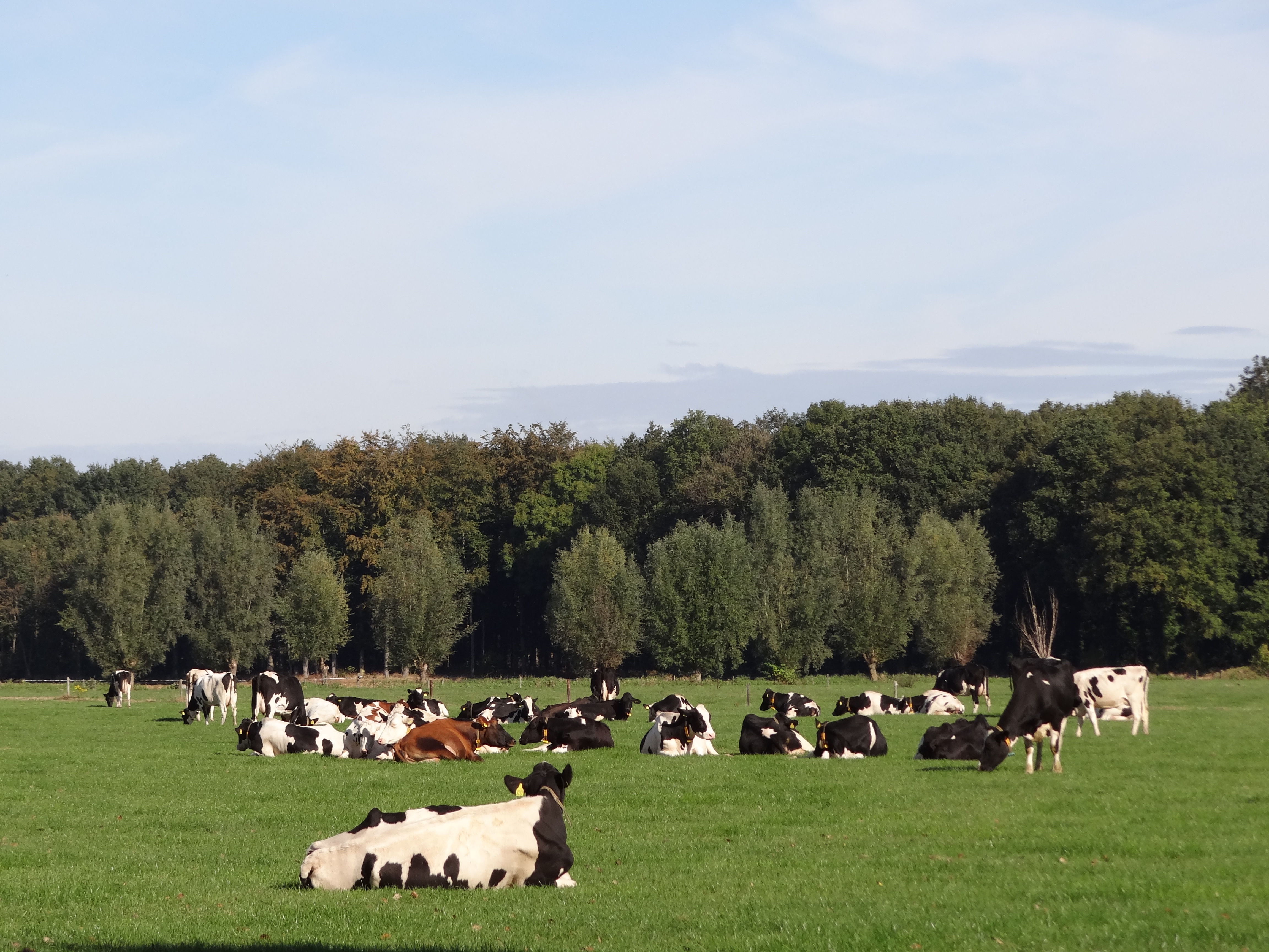 breedenbroekse bos